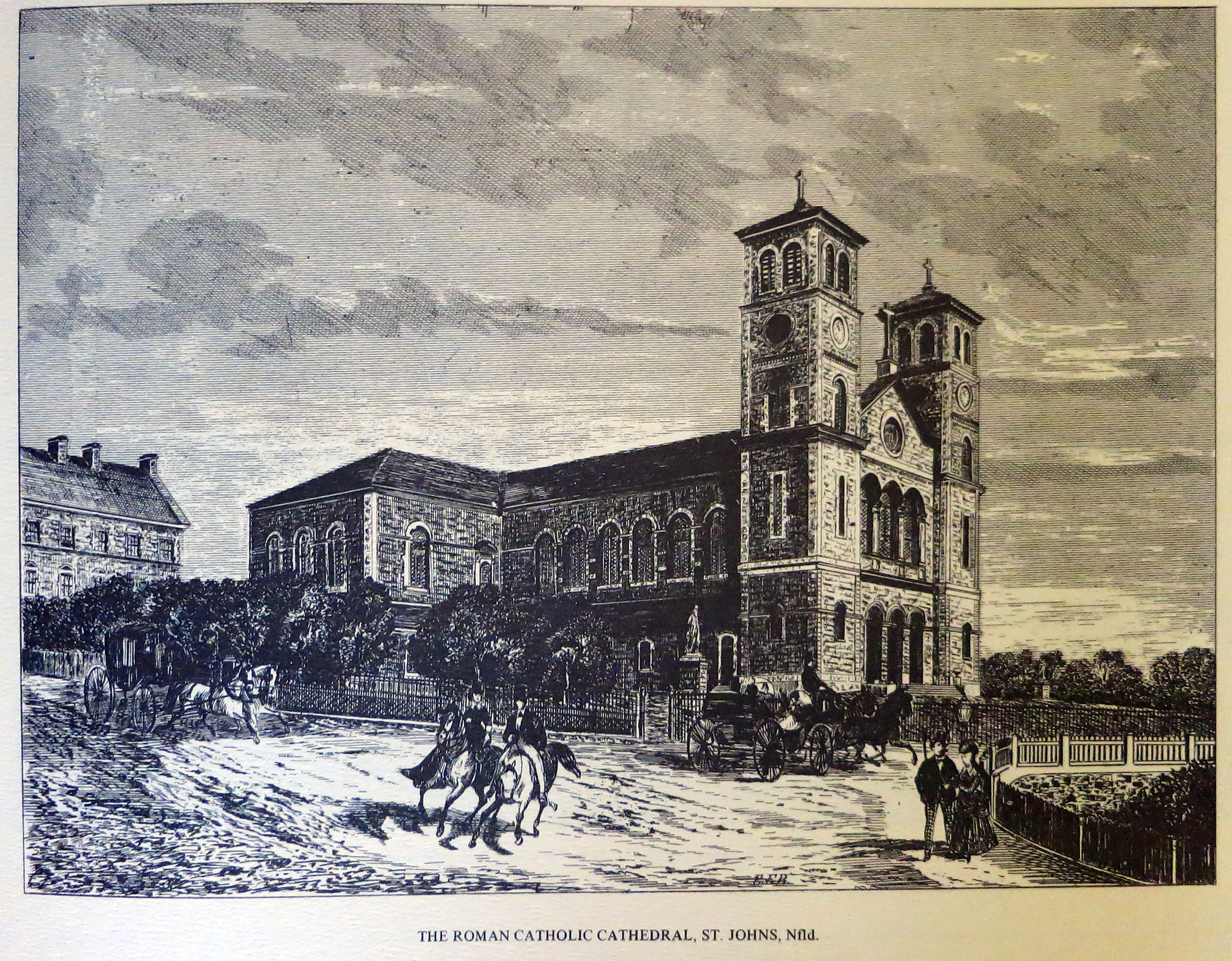 Roman Catholic Cathedral, St. John's, Newfoundland, 1 April 1871